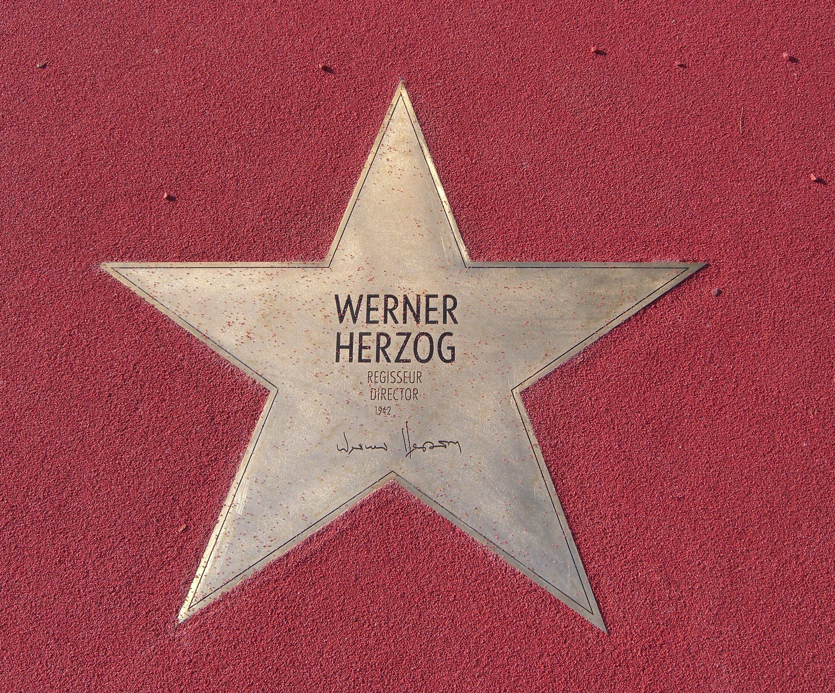 Star of Werner Herzog at "Boulevard der Stars" in Berlin.